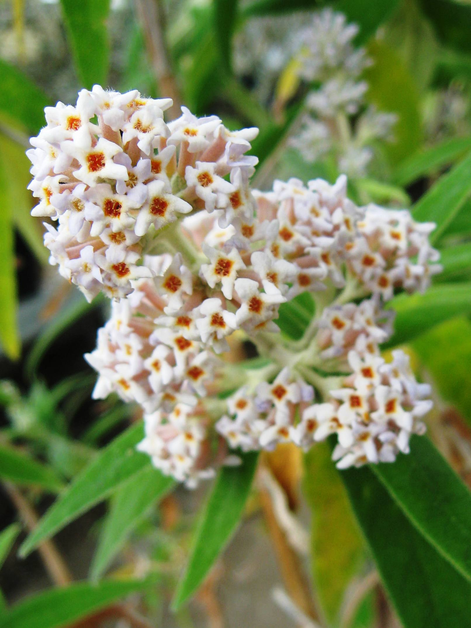 Photo of inflorescence of Buddelja salviifolia, white form, taken at Longstock Park, Hampshire, UK